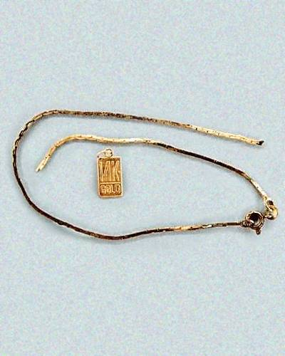 Necklace worn by an unidentified murder victim found in California in 1983